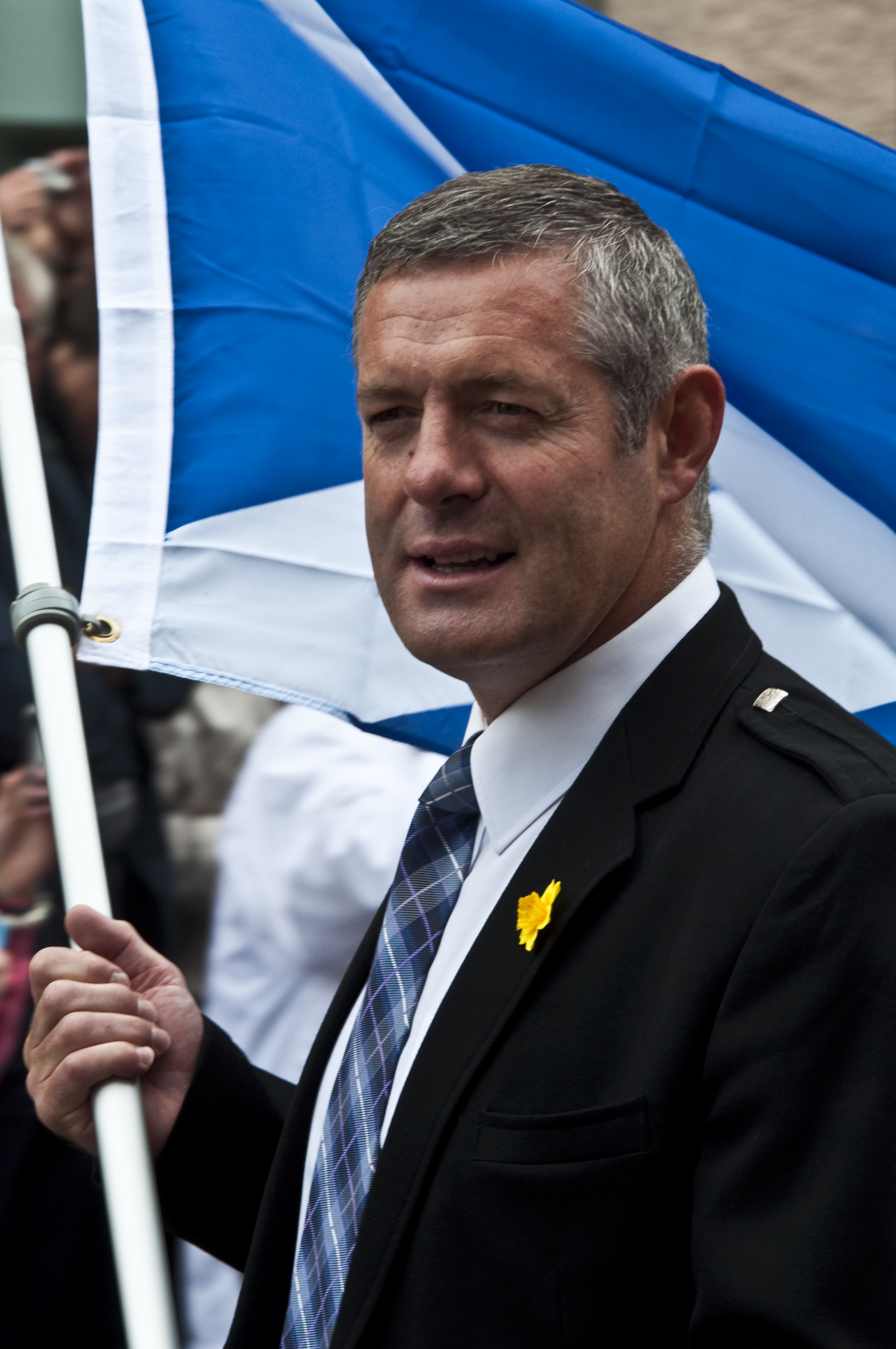 Pipefest in Edinburgh march down the Royal Mile, 7 August 2010.